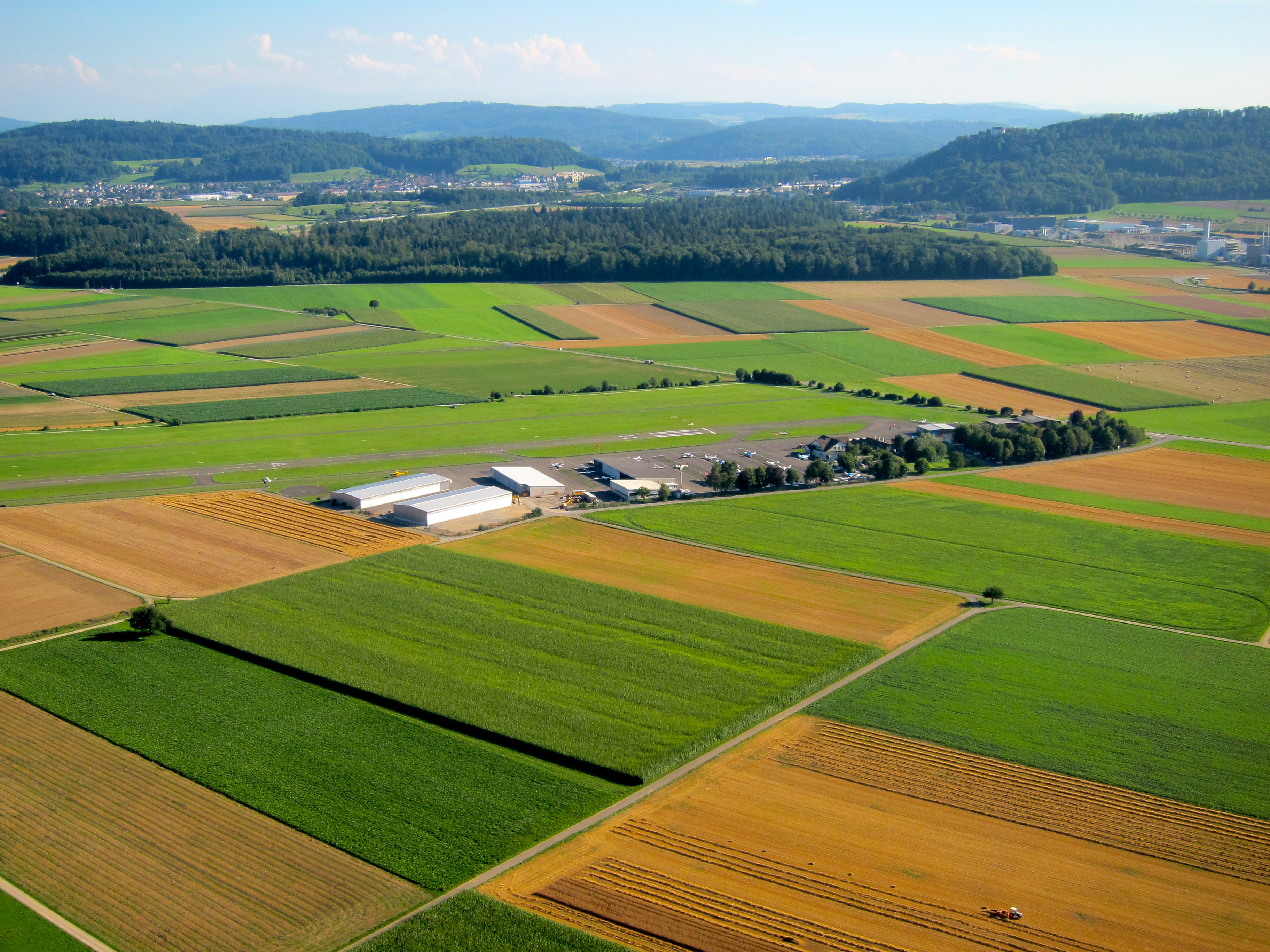 Aerial image of Birrfeld Airport.